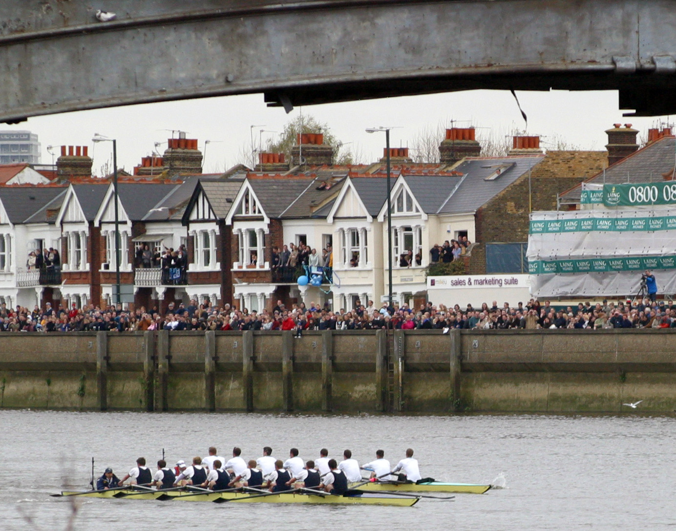 Image of 2003 Oxford & Cambridge Boat Race approaching Barnes Railway Bridge (Oxford winners by one foot), seen from the North (Middlesex) side of the course. Taken by Pointillist and released into the public domain with no restrictions on re-use.